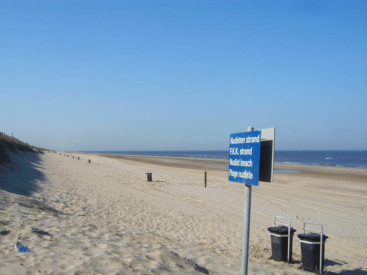 Nudist beach at Zandvoort, west of Amsterdam. I trust that this picture, while giving a true and accurate view of a nudist beach, meets all standards as to propriety.